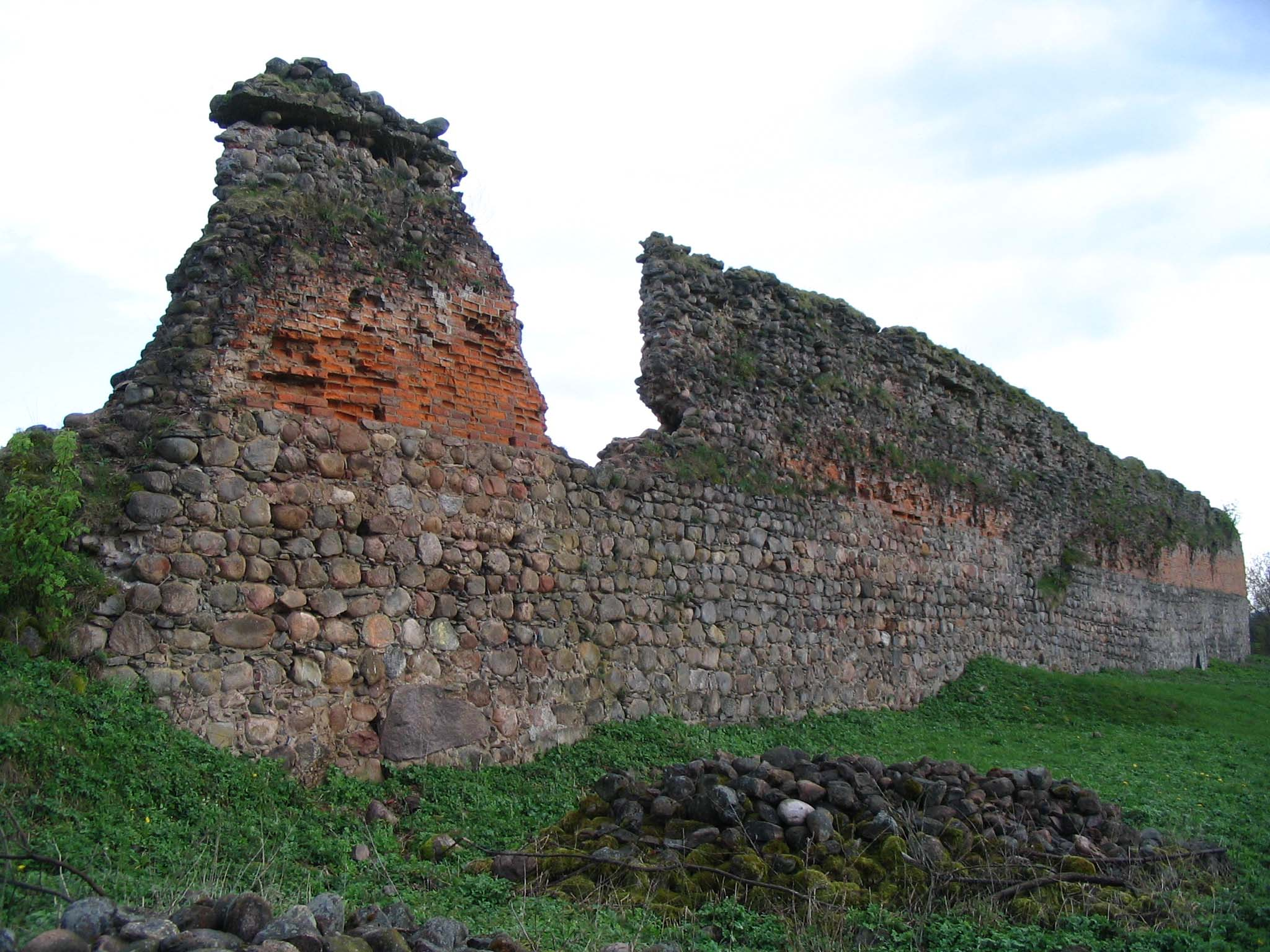 Wall of Kreva Castle, Belarus